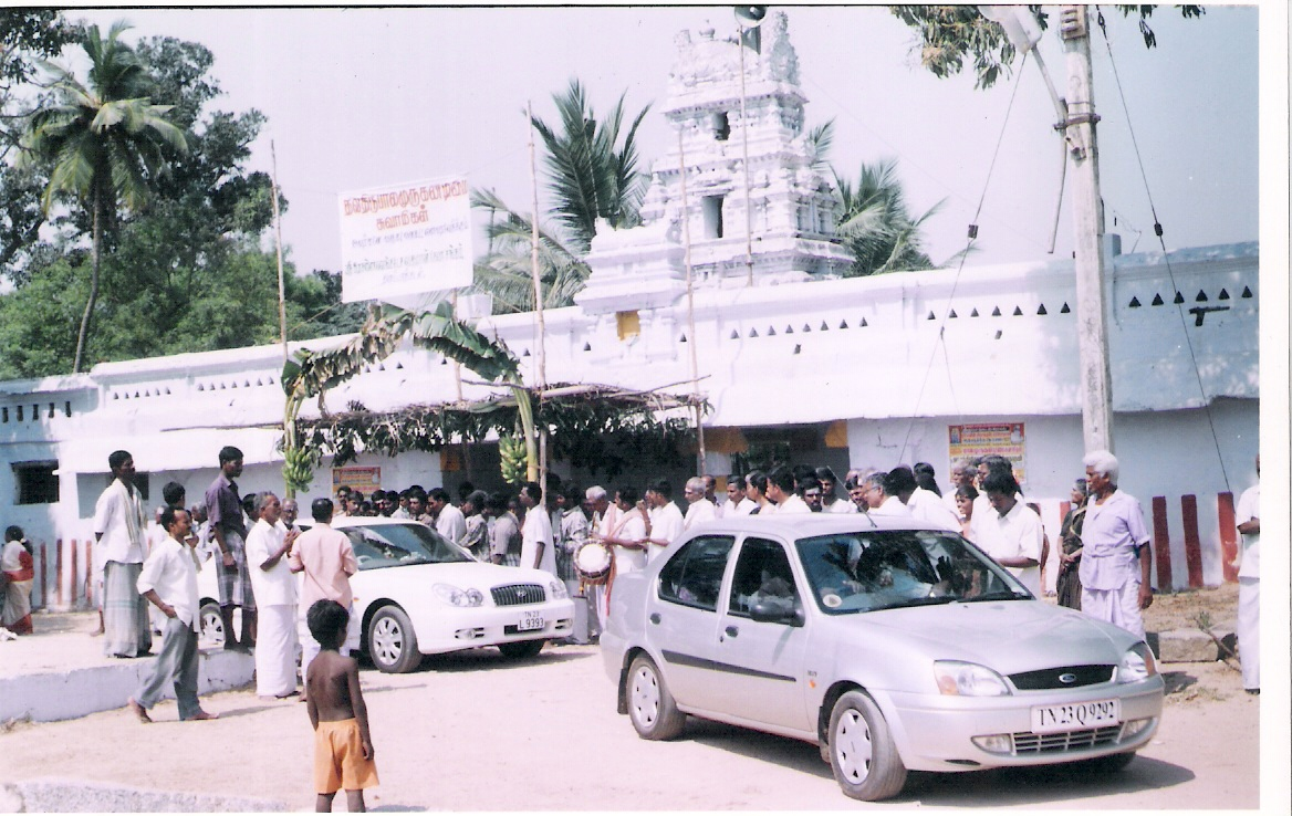 preset status of temple